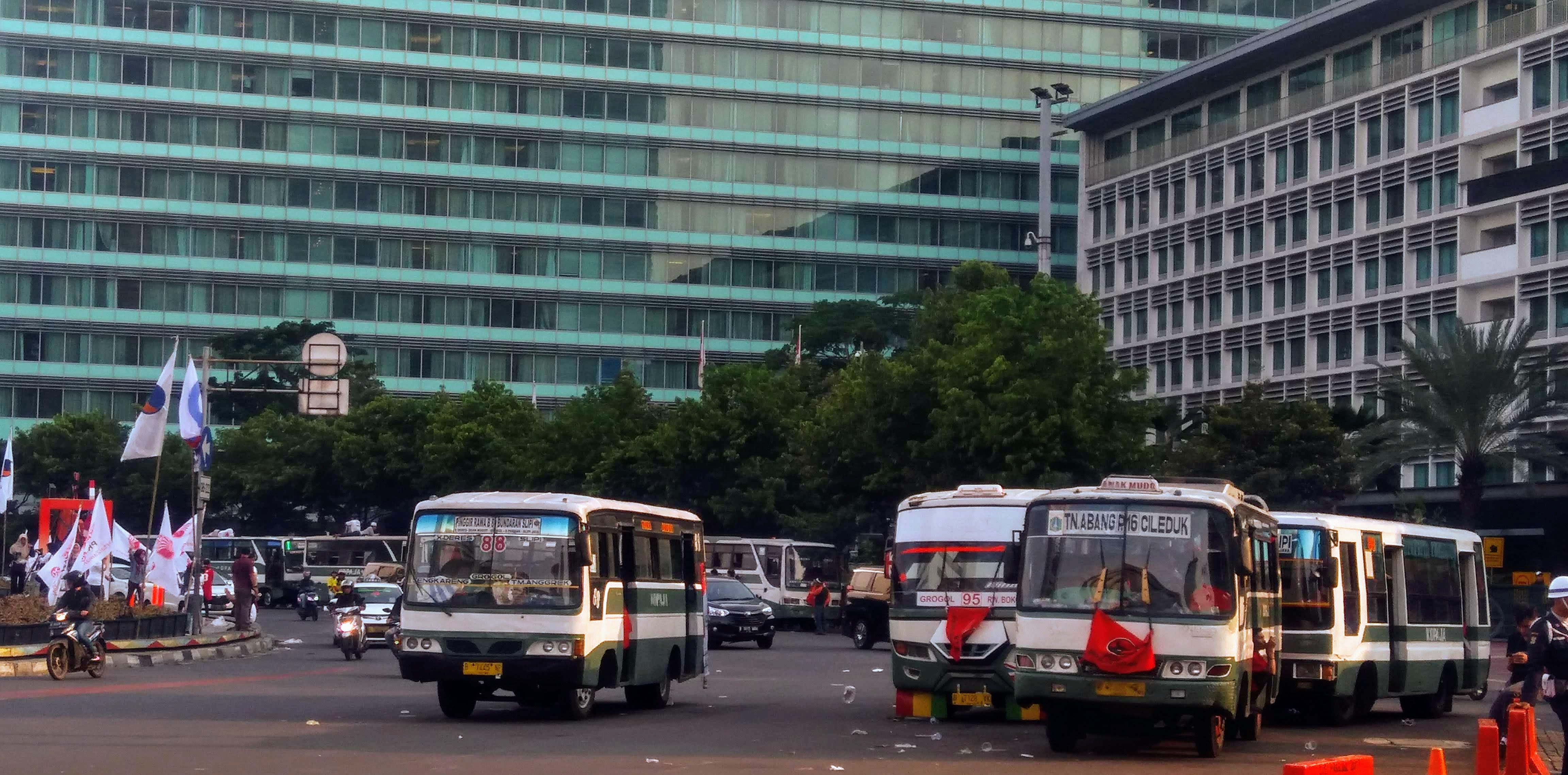 Kopaja buses in Bundaran HI, during a political campaign